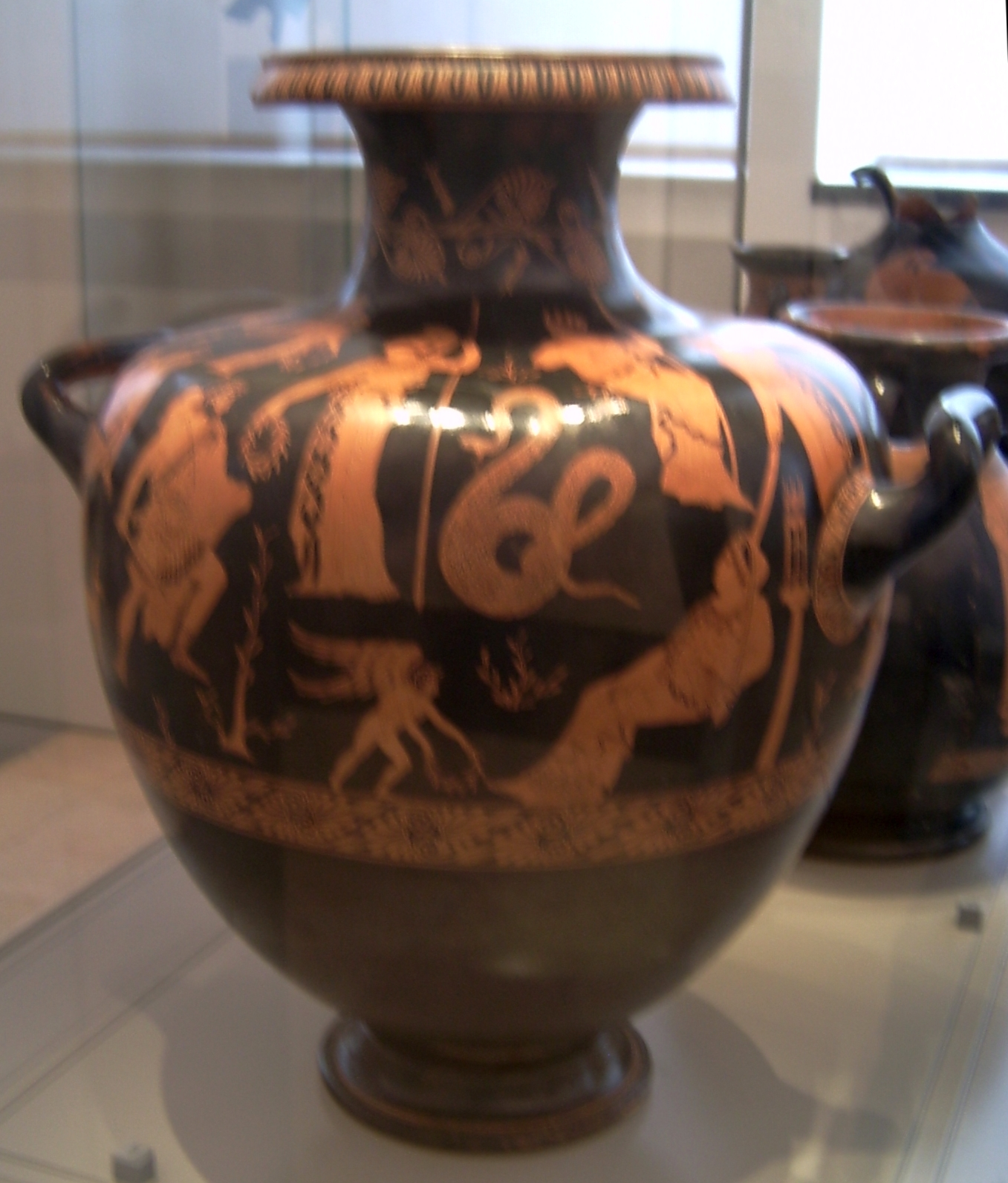 Hydria of the Kadmos Peinter, end of 5th Century